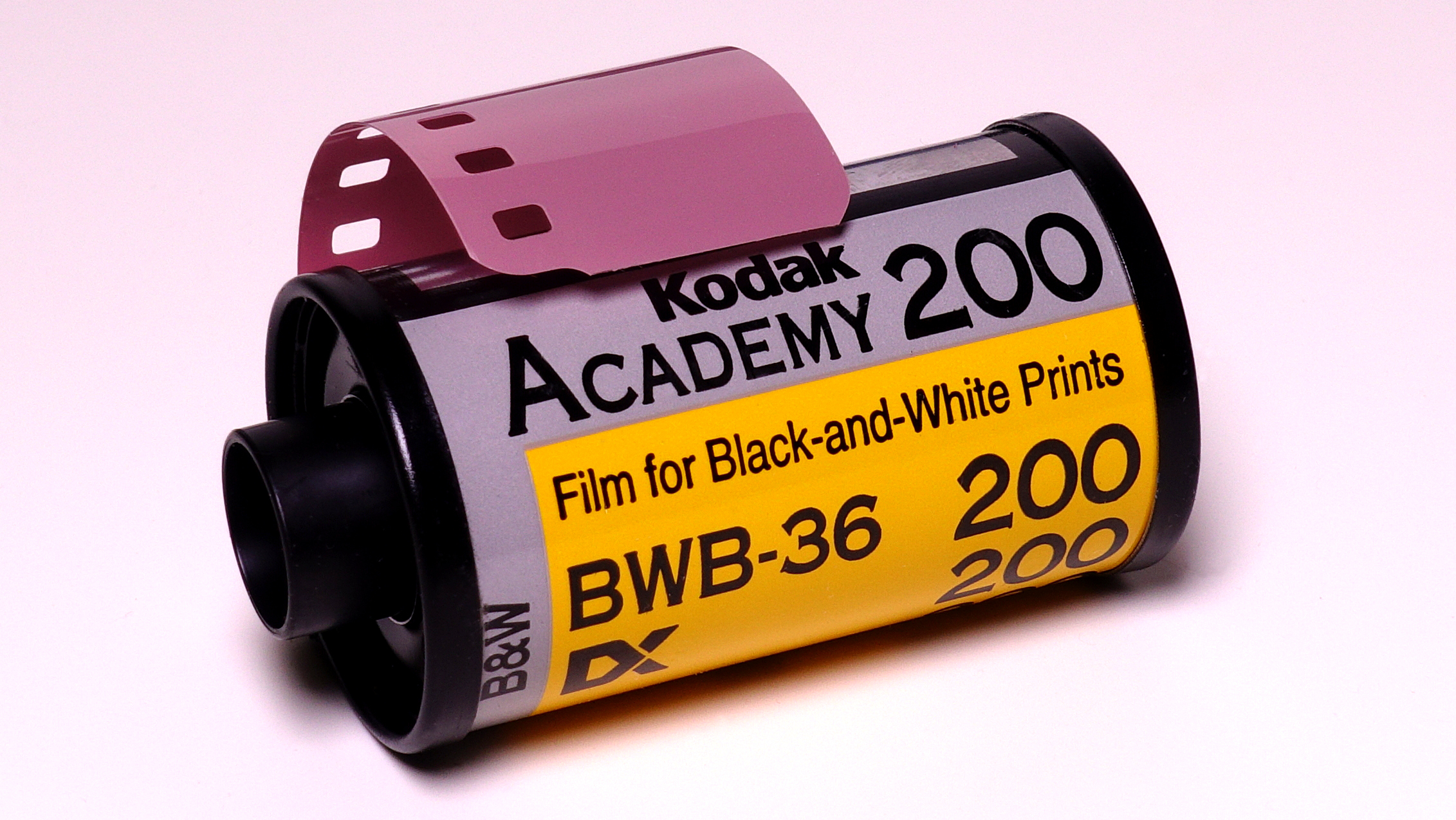 Kodak Academy 200 black and white photographic film.